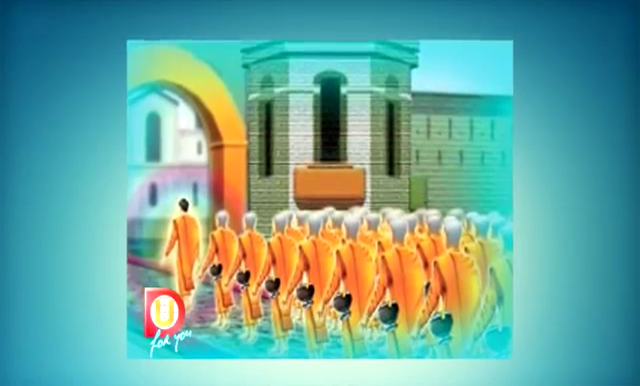 Dhammakaya Media Channel about the life of the Buddha